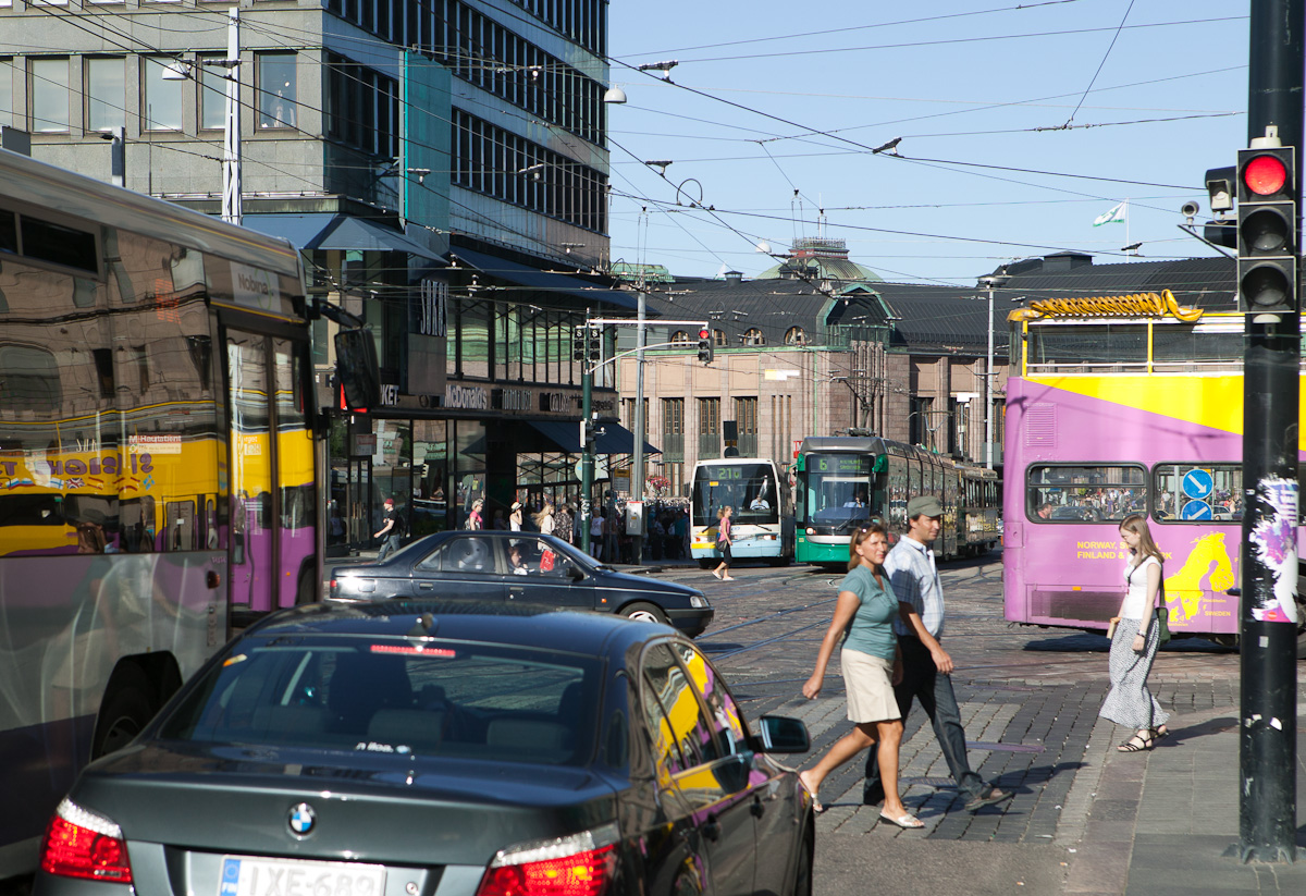 Road crossing in Helsinki center.